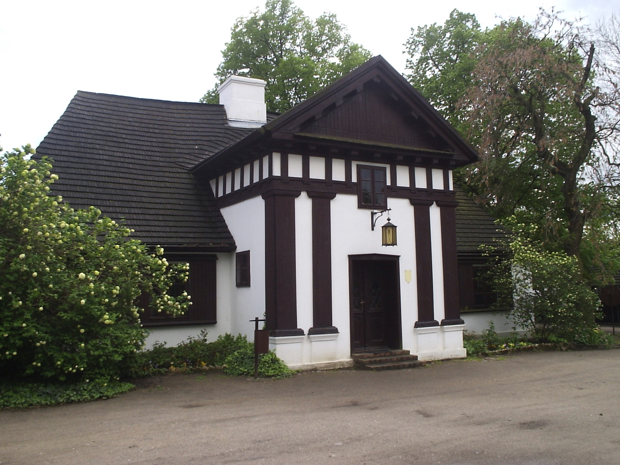 A manor house from 1749 in Grabonóg, Poland.